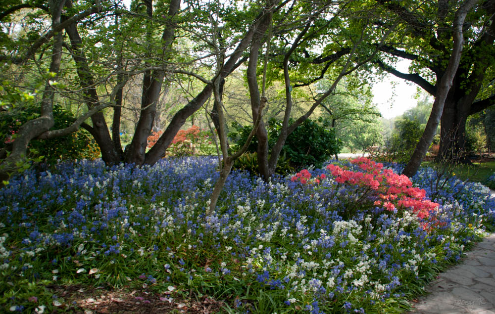 Christchurch gardens